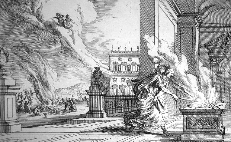 Johann Wilhelm Baur 1659 Illustration of Althaea from Ovid, Metamorphoses 7.524